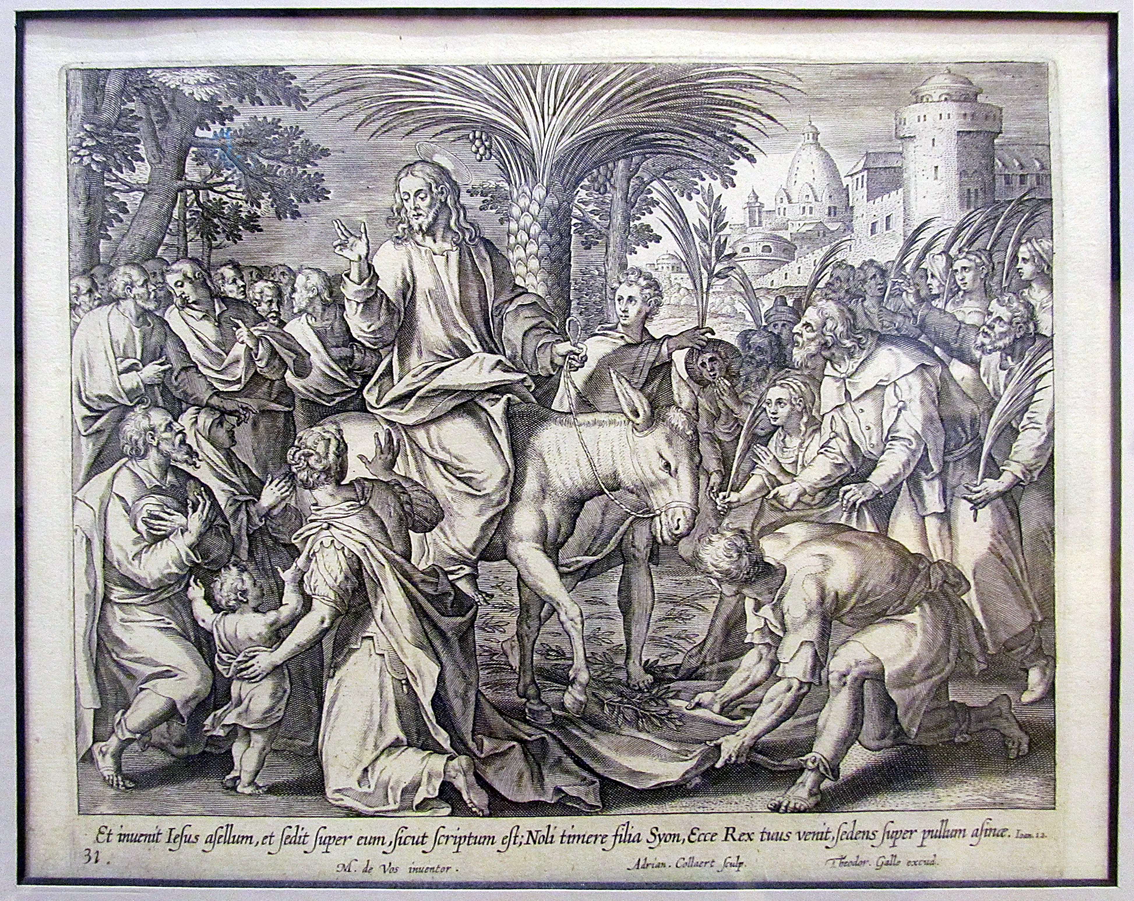 Adriaen Collaert, Entry into Jerusalem, 1598, engraving, National Museum of Serbia